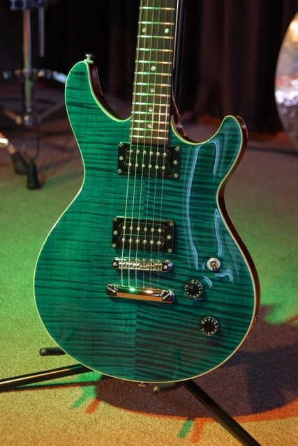 Cort M-600 green flame close-up